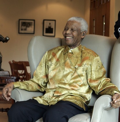 Australia's Governor-General Her Excellency Ms Quentin Bryce AC meets with Nelson Mandela